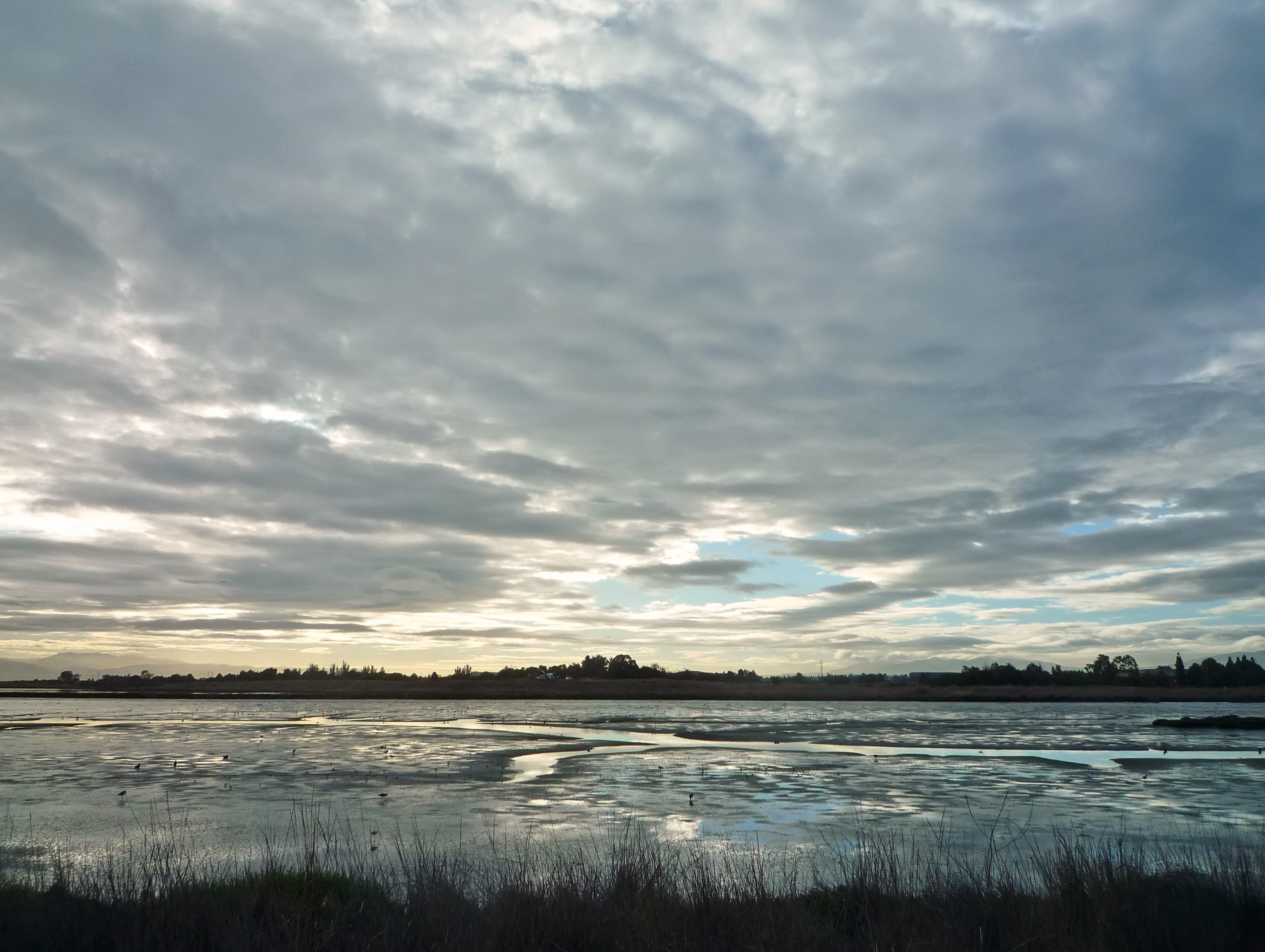 Shortly after dawn at Charleston Slough, Palo Alto Baylands, California